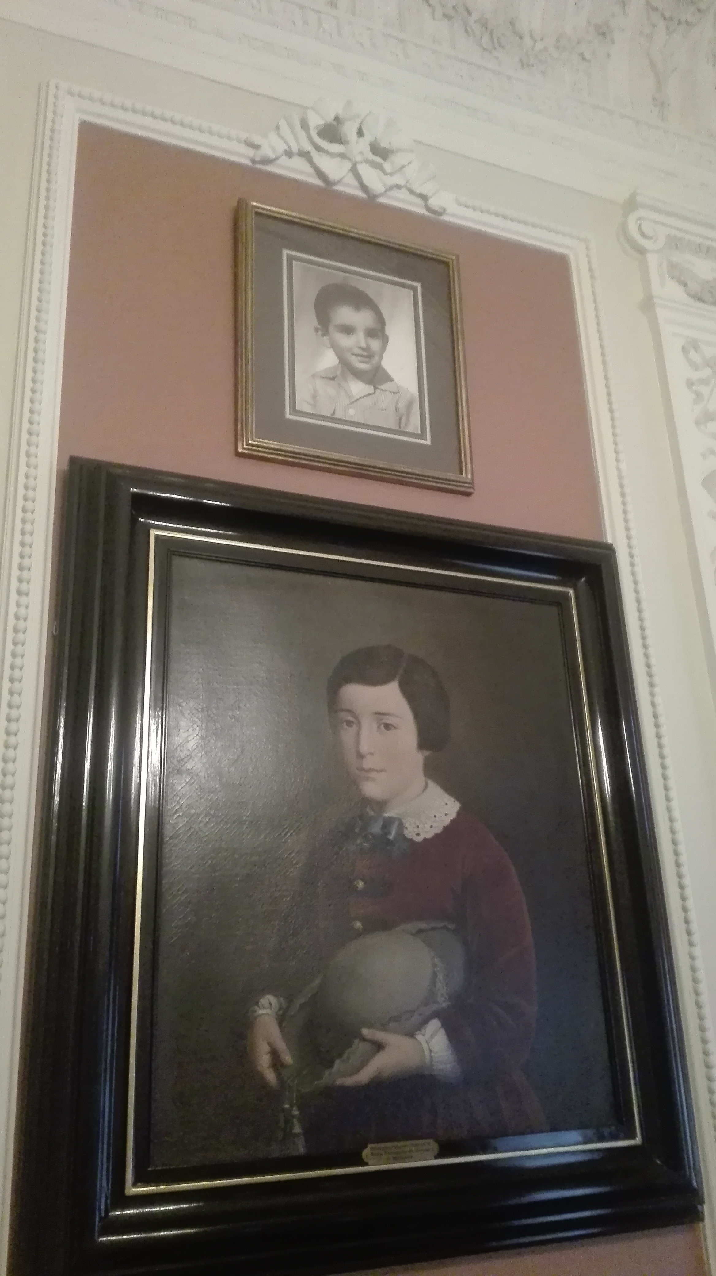 Casa Museo Guillermo Tovar de Teresa, at Valladolid 52, colonia Roma, alcaldía Cuauhtémoc, in Mexico City, shows a huge collection of art works, mainly Mexican art (Baroque art of New Spain, colonial art). Fundación Slim is protecting this collection since December 2018.